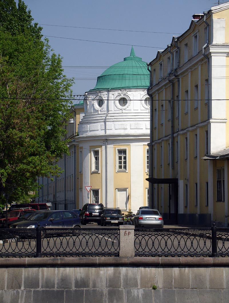 Moscow, Komissariatsky Lane, 2007. The building on the right, foreground, demolished in 2019